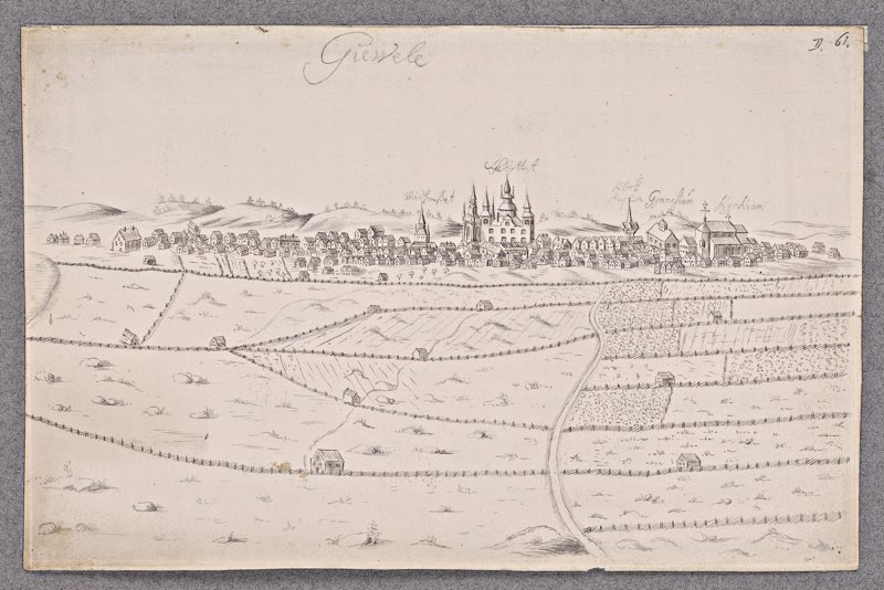 Drawing made as a basis for an engraving in Suecia Antiqua et Hodierna